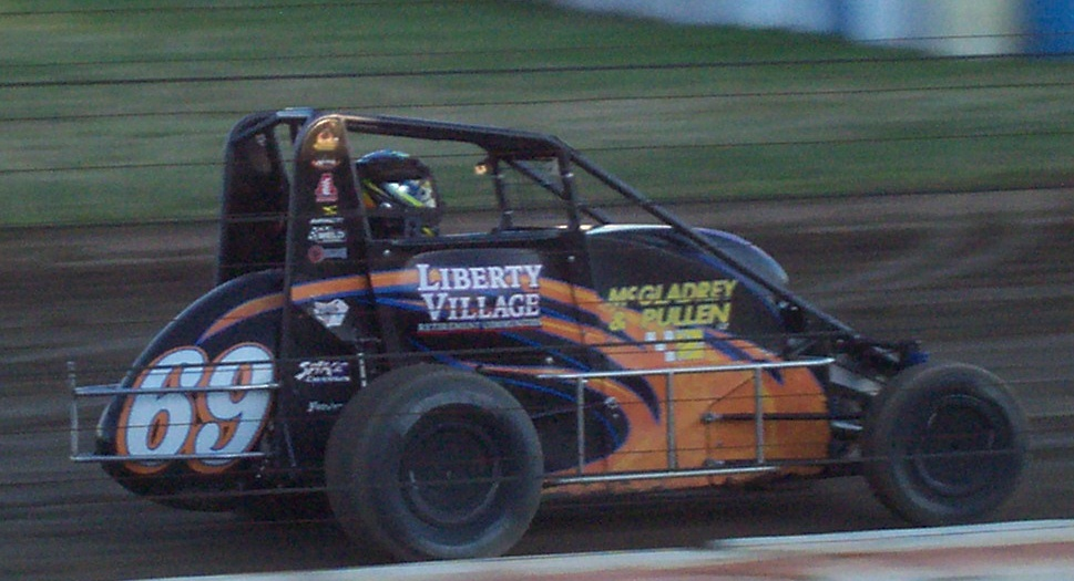 The United States Auto Club (USAC) Midget car of A. J. Fike at the Dodge County, Wisconsin fairgrounds in 2008.